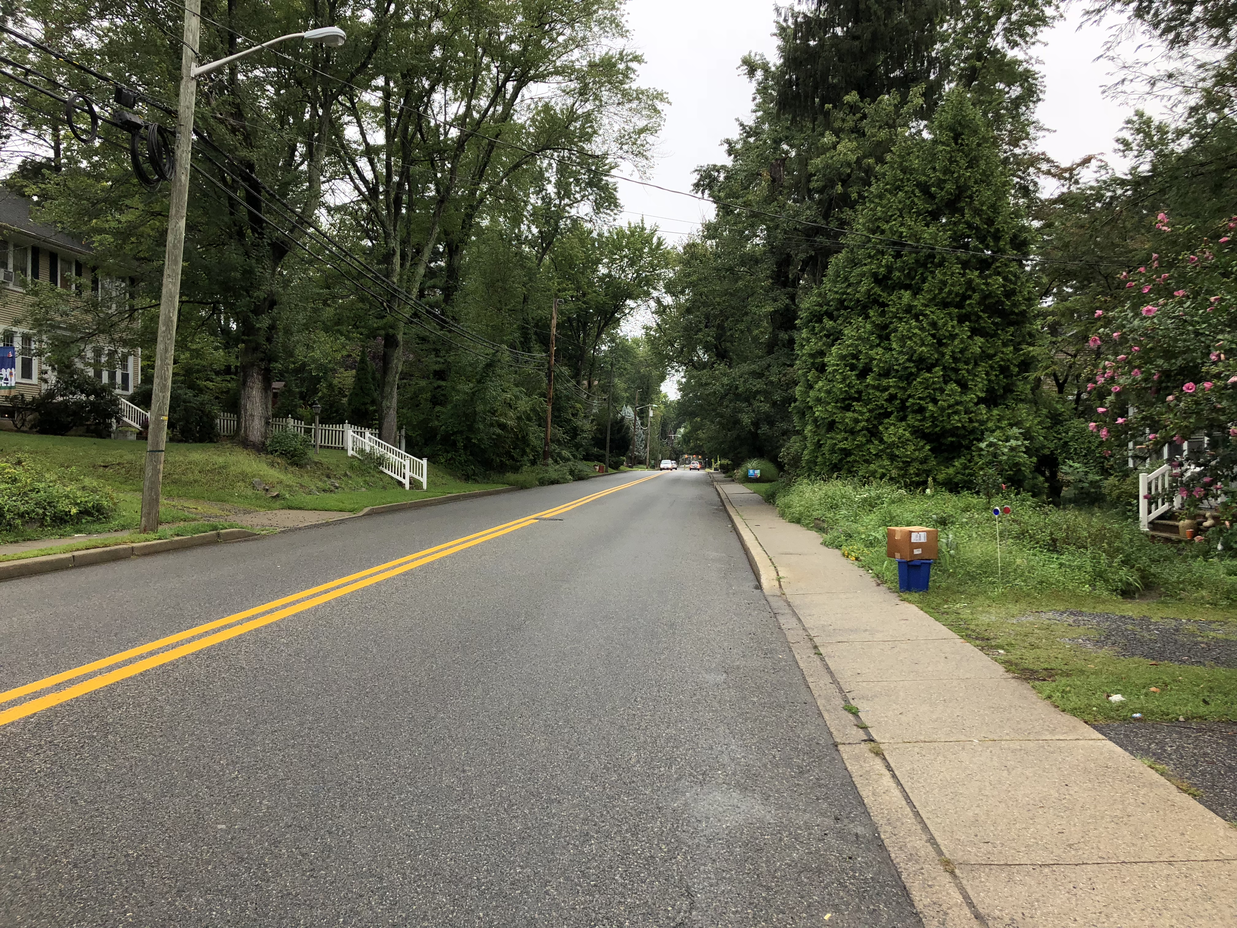 View north along Bergen County Route 39 (Schraalenburgh Road) between Massachusetts Avenue and Bergen County Route 80 (Hardenburgh Avenue) in Haworth, Bergen County, New Jersey